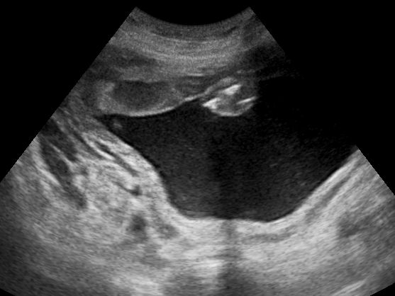 Polyhydramnios Medical ultrasound image. Provided as-is. Please feel free to categorise, add description, crop.